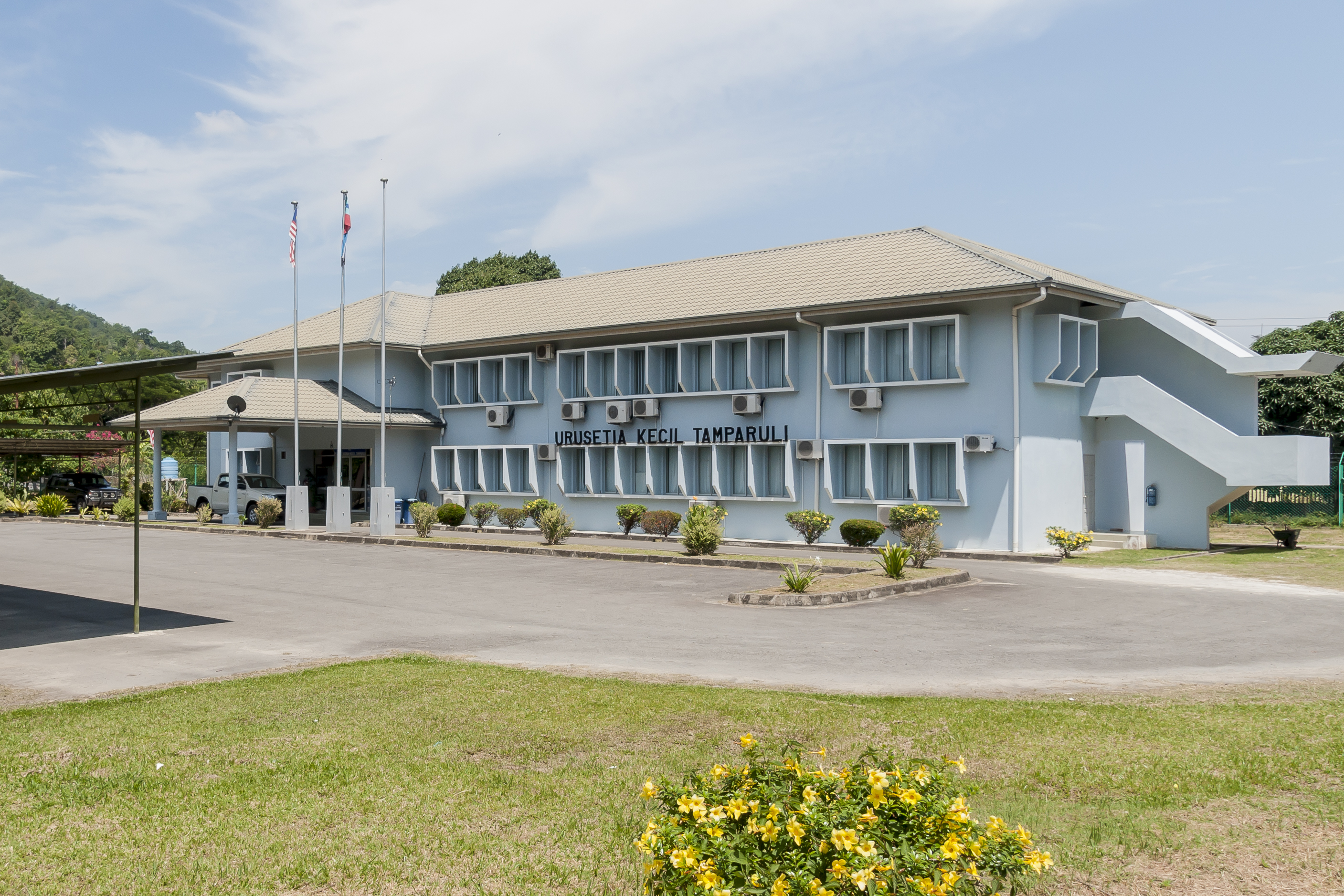 Tamparuli, Sabah: District Office (Pejabat Daerah Kecil Tamparuli)